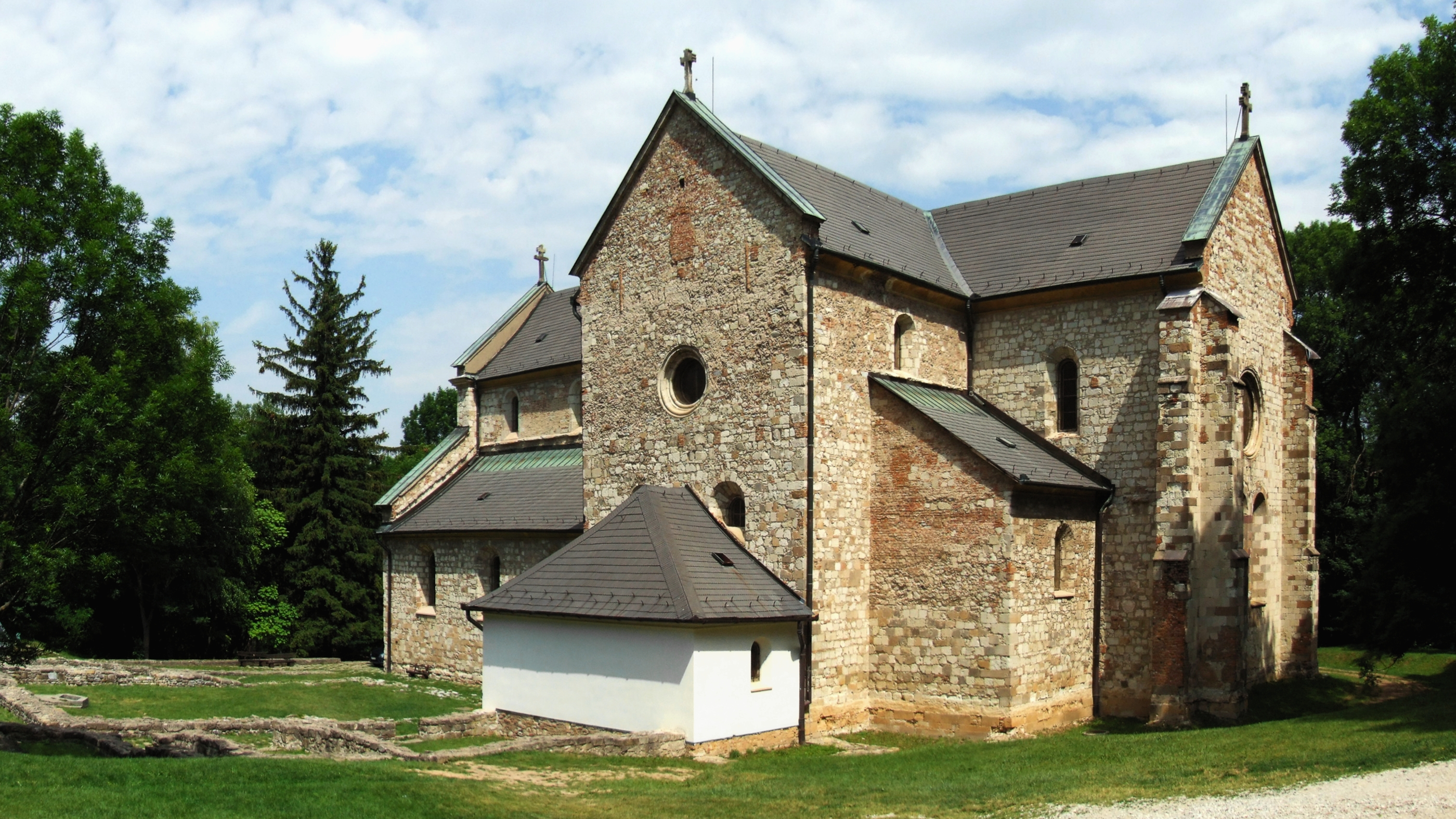 Cistercian Abbey of Bélapátfalva